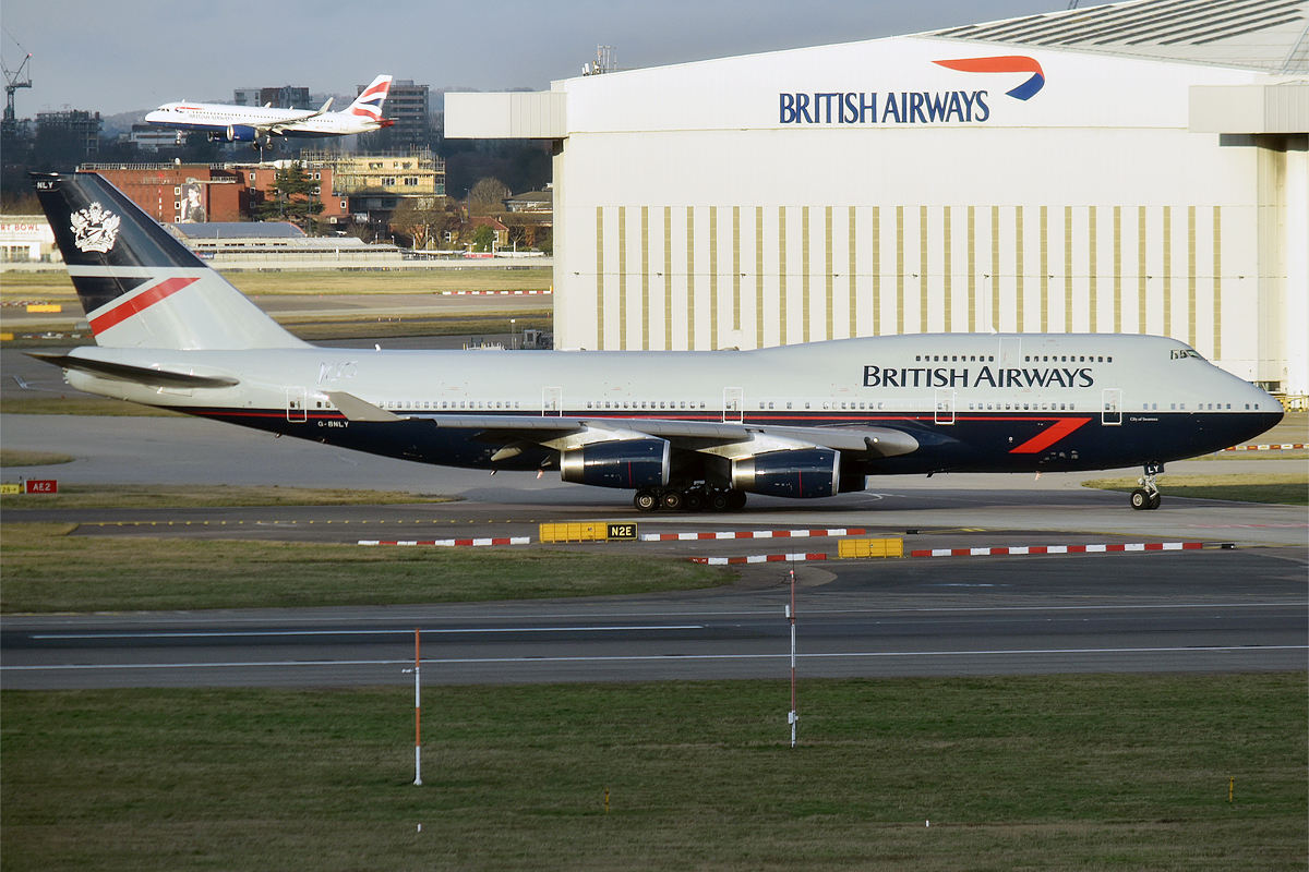 British Airways (Landor Retro Livery), G-BNLY, Boeing 747-436